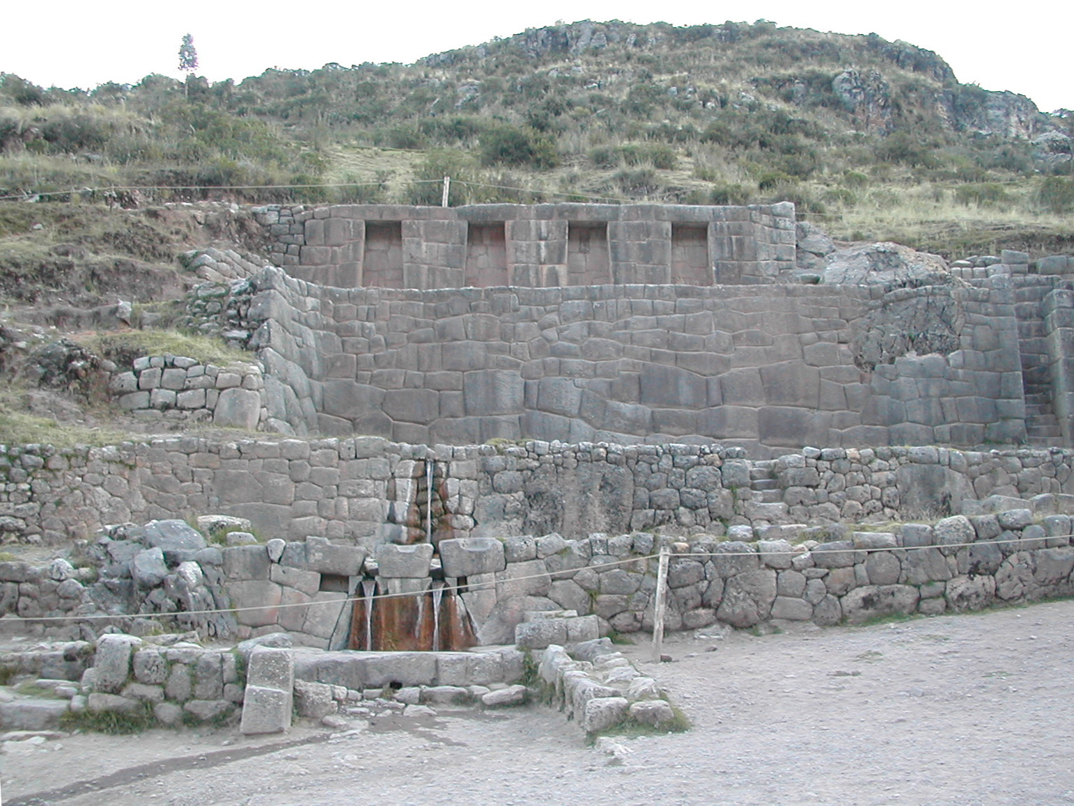 Inca´s Sacred Valley